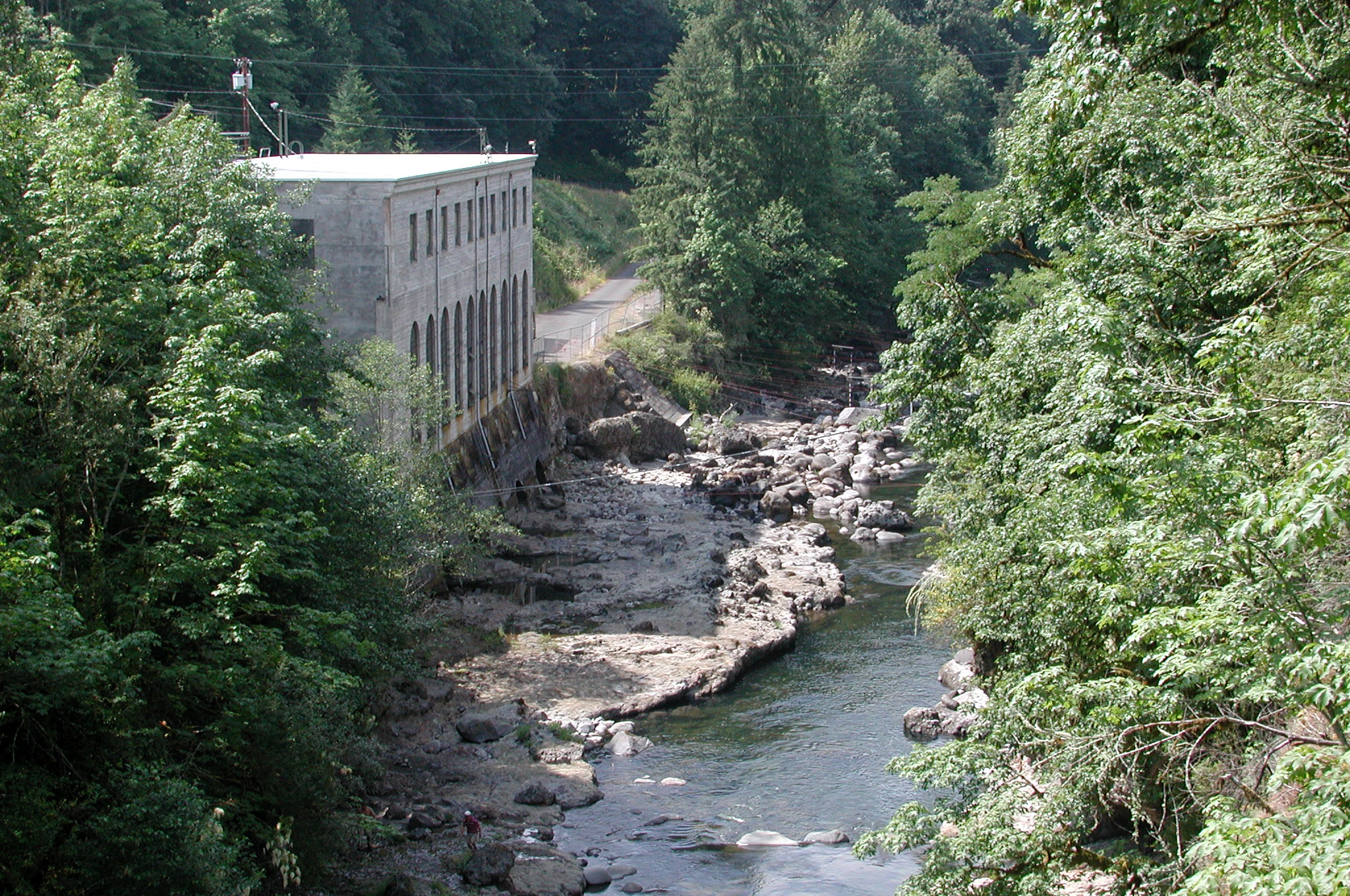 Bull Run River in Clackamas County in the U.S. state of Oregon. The view is downstream (northwest) from the bridge carrying Southeast Bull Run Road over the river about 1.5 miles (2.4 km) from its mouth. The structure on the left is a defunct power station that was part of the Bull Run Hydroelectric Project managed by Portland General Electric.